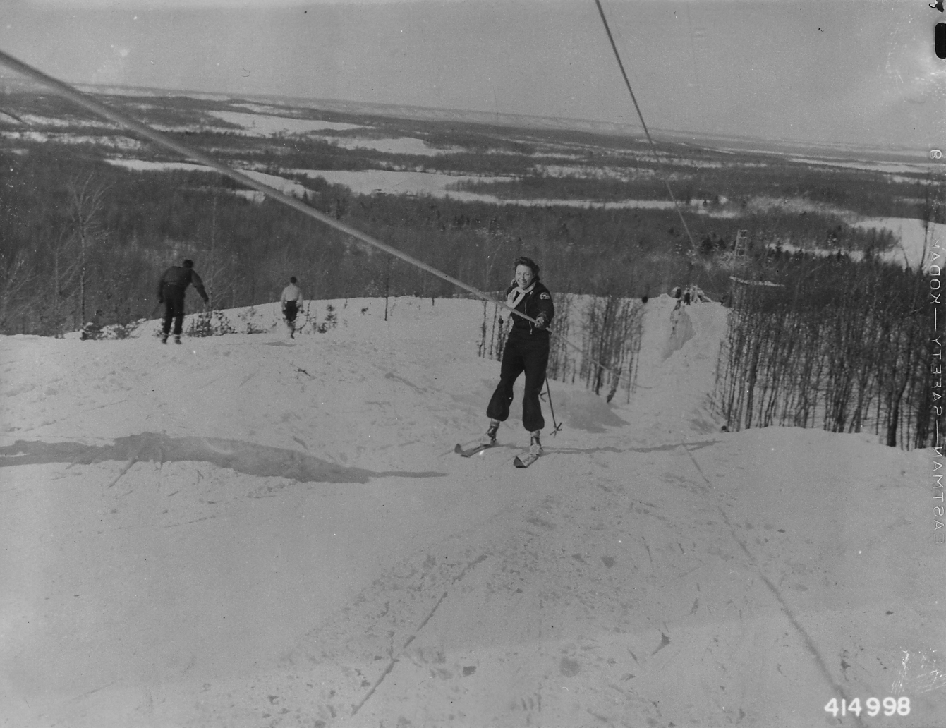 Scope and content: Original caption: Approaching top of hill by ski tow. 1940-1941.